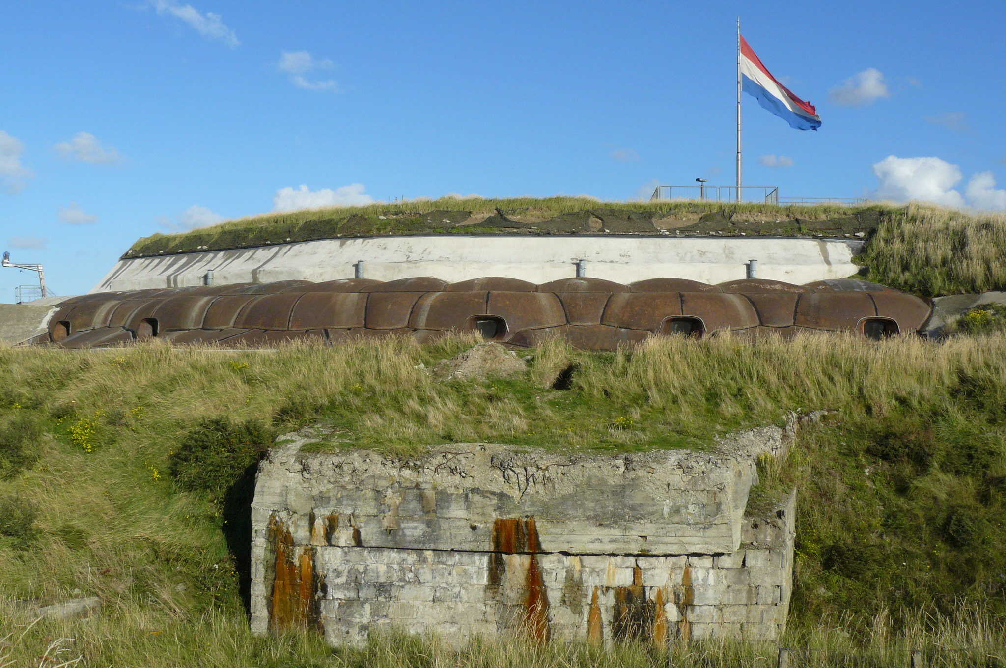 Heavy armour facing the sea to protect the heavy guns of the Fort bij IJmuiden